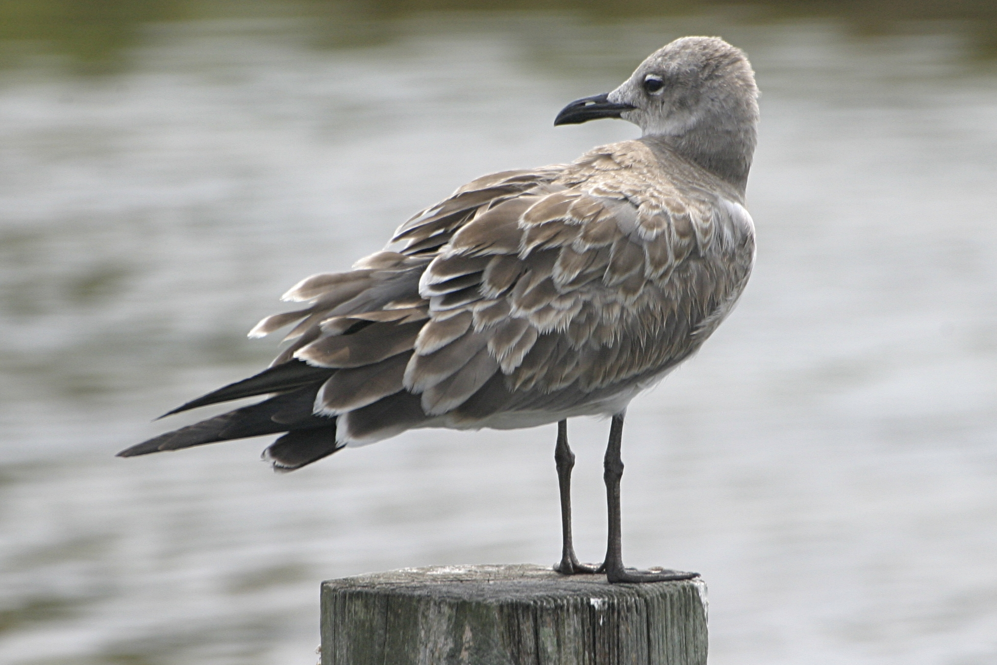 Immature Laughing Gull August, 2006 Corolla, NC Photo by Alan Light